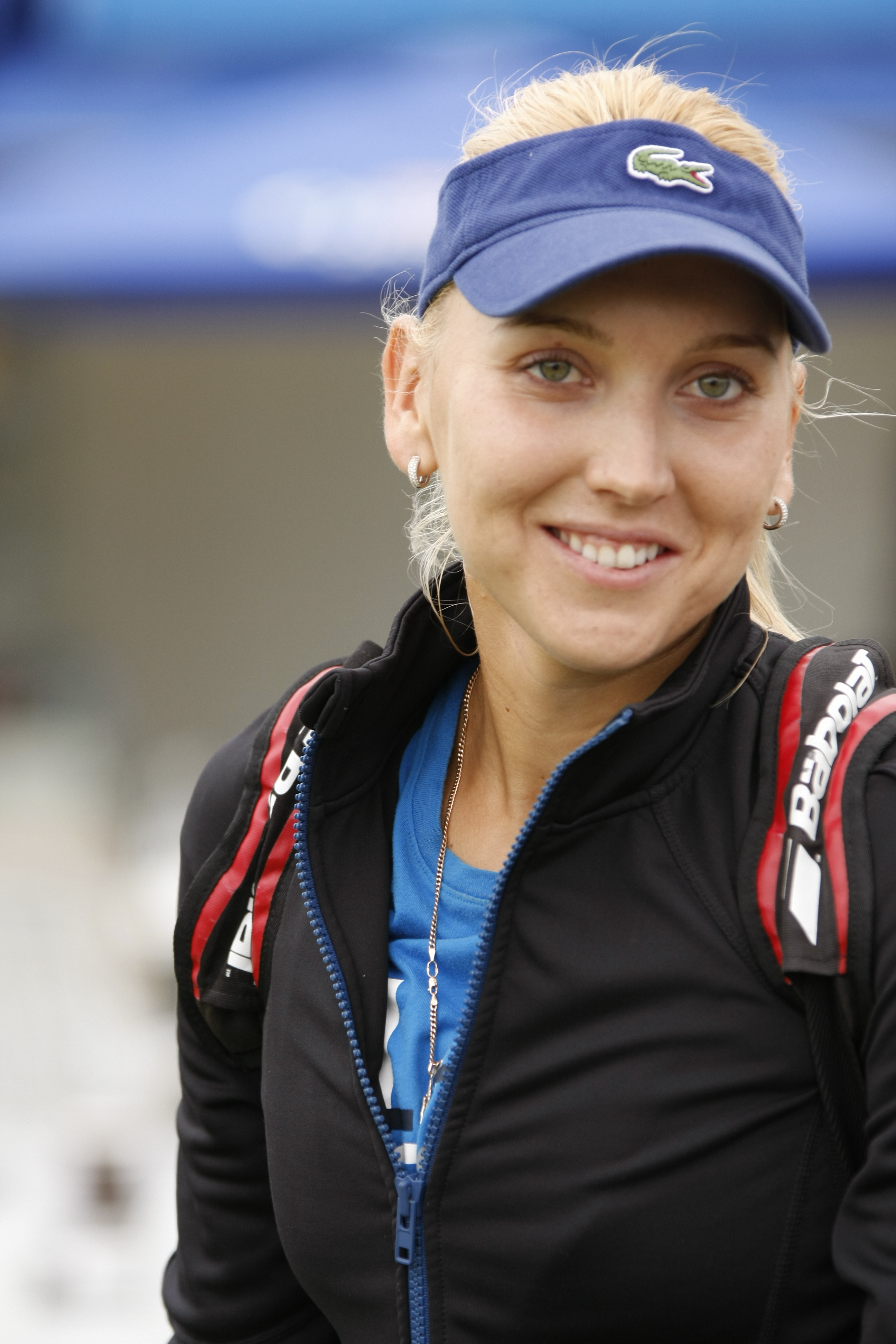 Vesnina at the Aegon International, June 2014